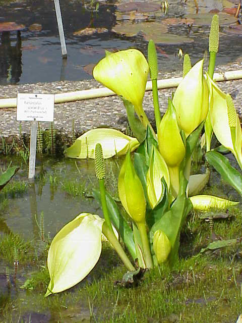 Western Skunk Cabbage (Lysichiton americanus)